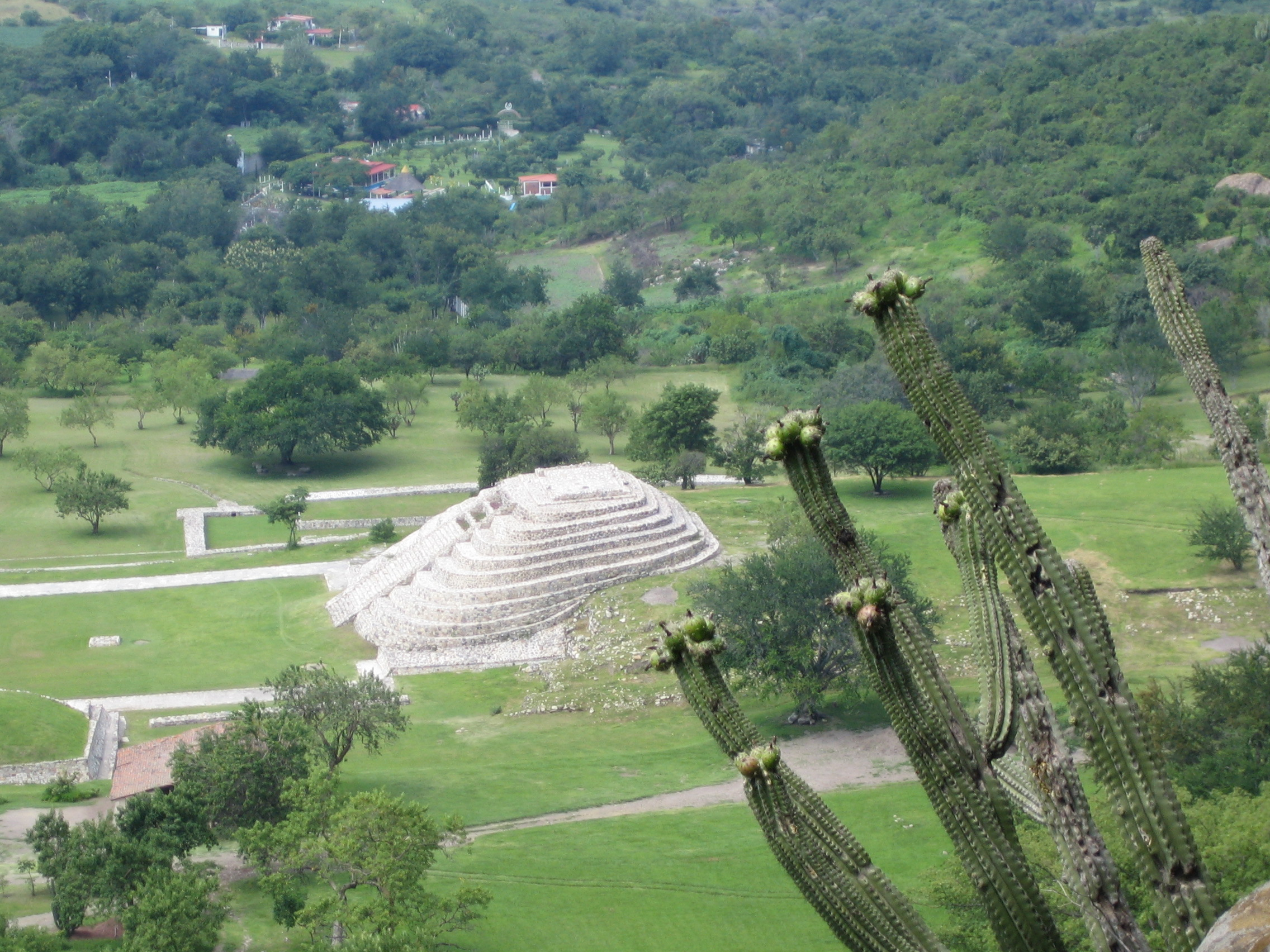 Chalcatzingo, look down from the hill to the pyramid